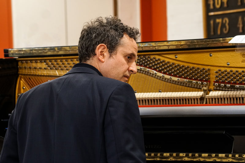 Jeb Patton in Aarhus (Denmark 2020)